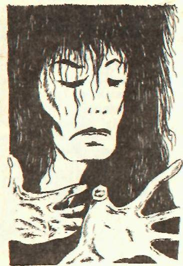 The slovanian godess of death